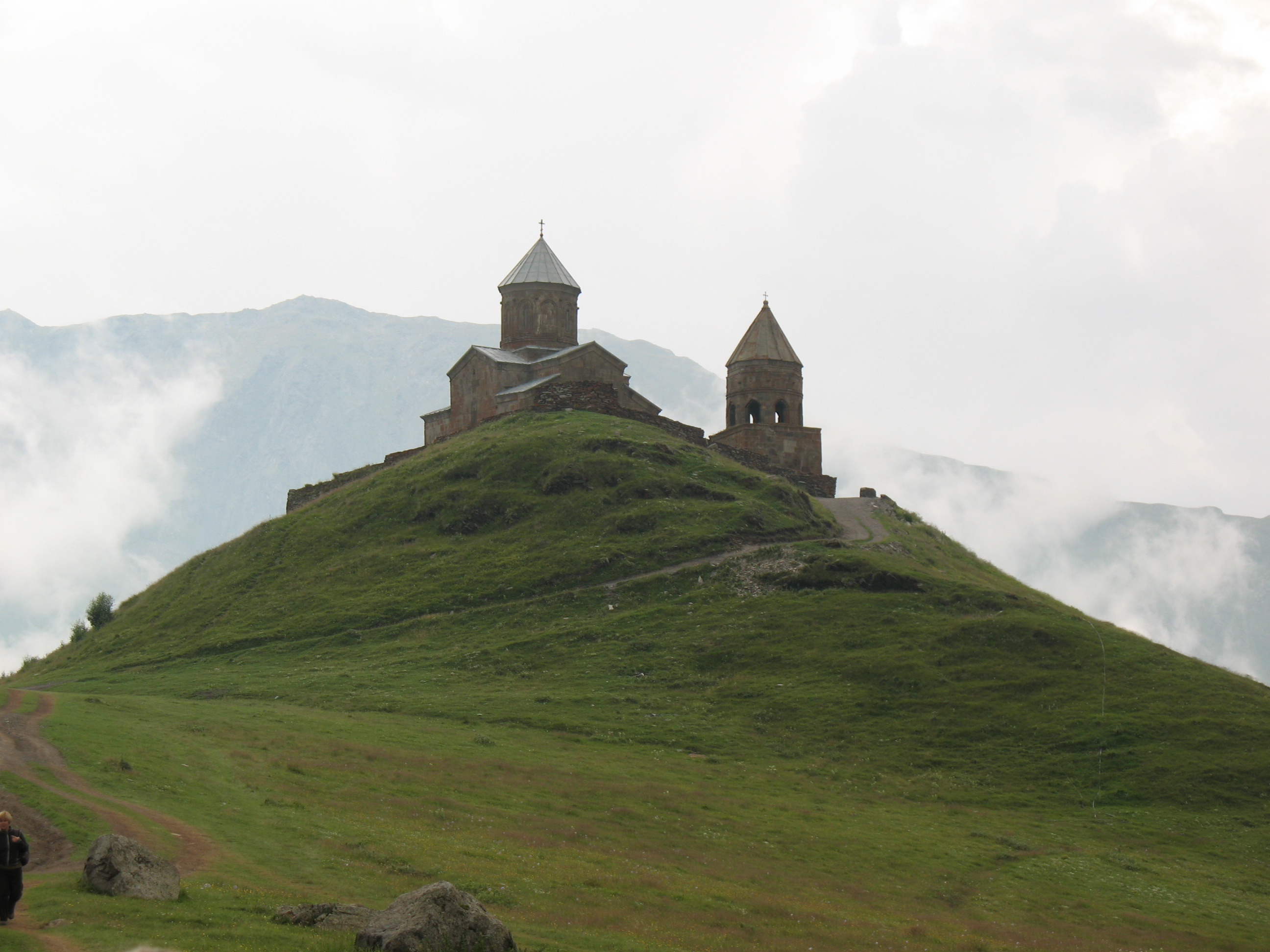 Gergeti Trinity Church (Tsminda Sameba) near Kazbegi, Georgia.